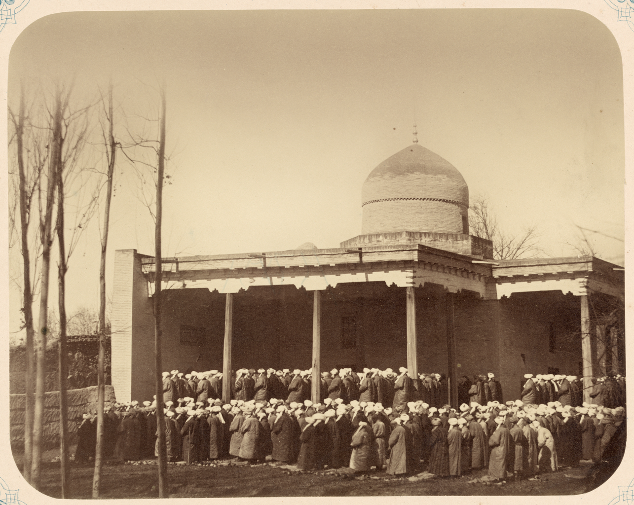 This photograph is from the ethnographical part of Turkestan Album, a comprehensive visual survey of Central Asia undertaken after imperial Russia assumed control of the region in the 1860s. Commissioned by General Konstantin Petrovich von Kaufman (1818–82), the first governor-general of Russian Turkestan, the album is in four parts spanning six volumes: “Archaeological Part” (two volumes); “Ethnographic Part” (two volumes); “Trades Part” (one volume); and “Historical Part” (one volume). The principal compiler was Russian Orientalist Aleksandr L. Kun, who was assisted by Nikolai V. Bogaevskii. The album contains some 1,200 photographs, along with architectural plans, watercolor drawings, and maps. The “Ethnographic Part” includes 491 individual photographs on 163 plates. The photographs show individuals representing the different peoples of the region (Plates 1–33); daily life and rituals (Plates 34–91); and views of villages and cities, street vendors, and commercial activities (Plates 92–163). Ethnographic photographs; Mosques; Muslims; Photographic surveys; Prayer; Spiritual life; Tombs; Turkic peoples